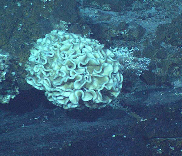 The image may be one of a large 20-cm wide Xenophyophore. Xenophyophores are single cell animals called Protists. As benthic particulate feeders, xenophyophores normally sift through the sediments on the sea floor and excrete a slimy substance; in locations with a dense population of xenophyophores, such as at the bottoms of oceanic trenches, this slime may cover large areas. Local population densities may be as high as 2,000 individuals per 100 square meters. Image courtesy of IFE, URI-JAO, Lost City science party, and NOAA.